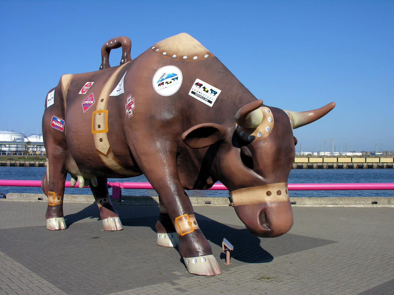 "Cow traveler" in Ventspils. Author: Pauls Spridzans